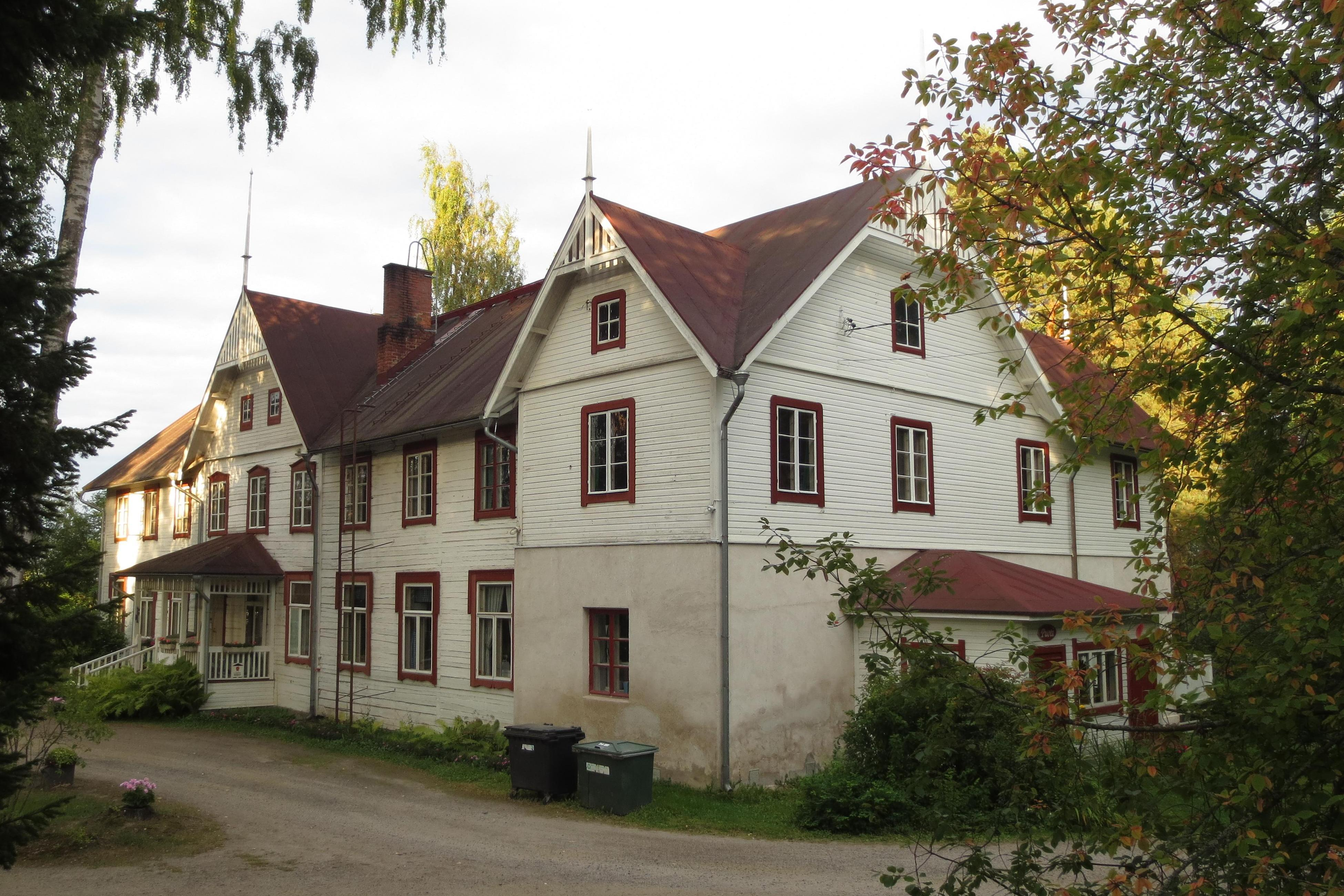 Kangasala rest home